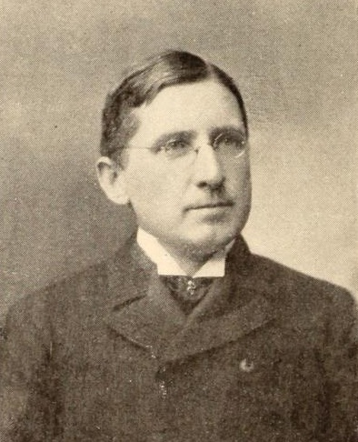 Portrait of New York state senator Merton E. Lewis